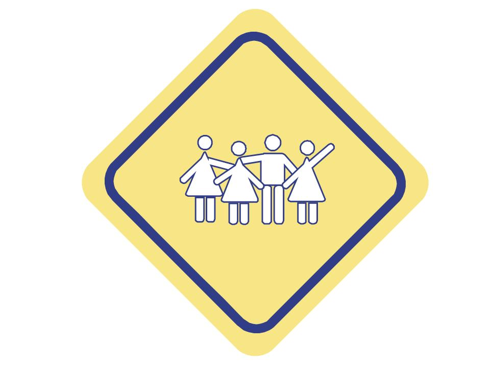 NICE Internships in Argentina